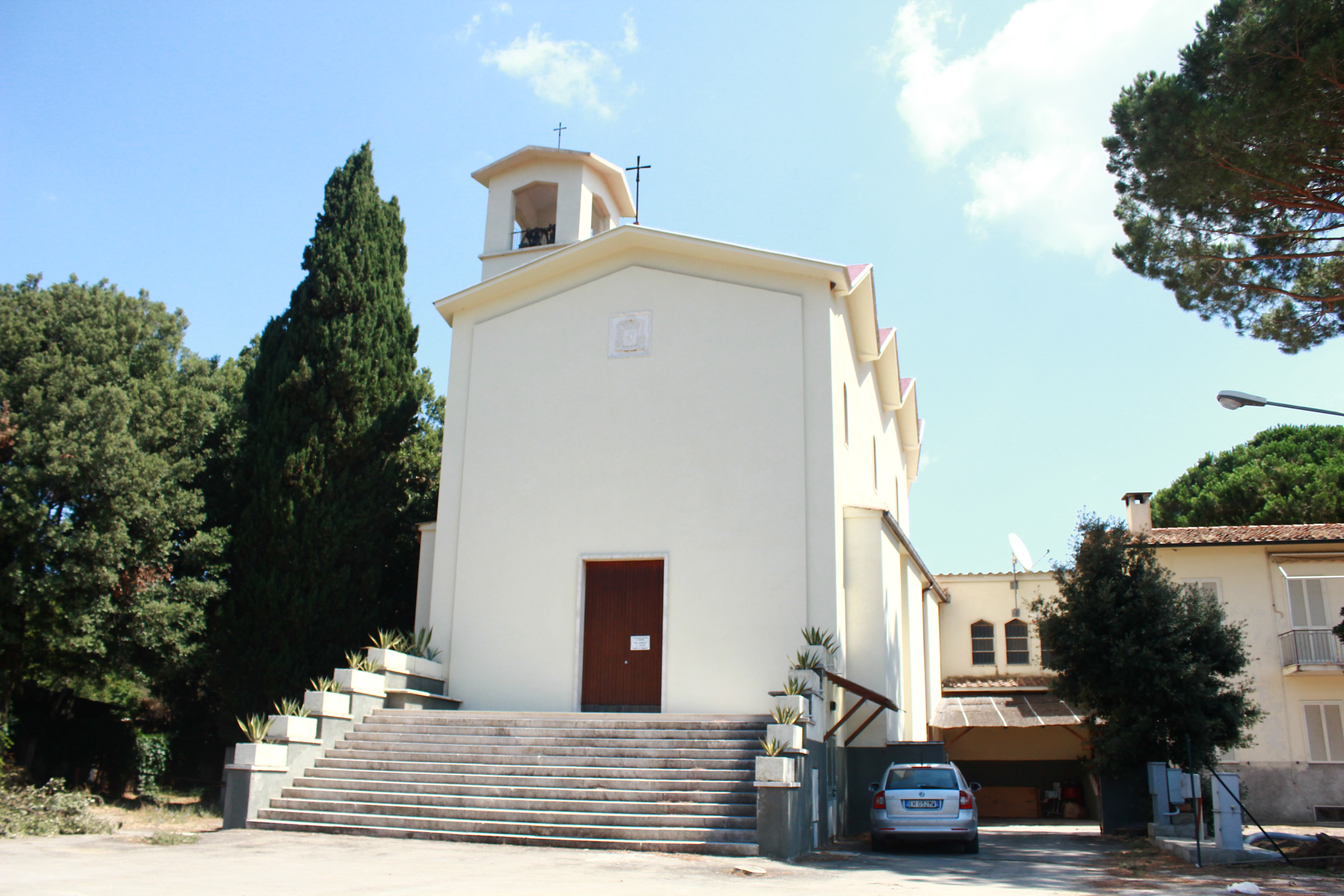 Ernesto Ganelli, church of Madonna del Rosario in Pian d'Alma, province of Grosseto, Tuscany